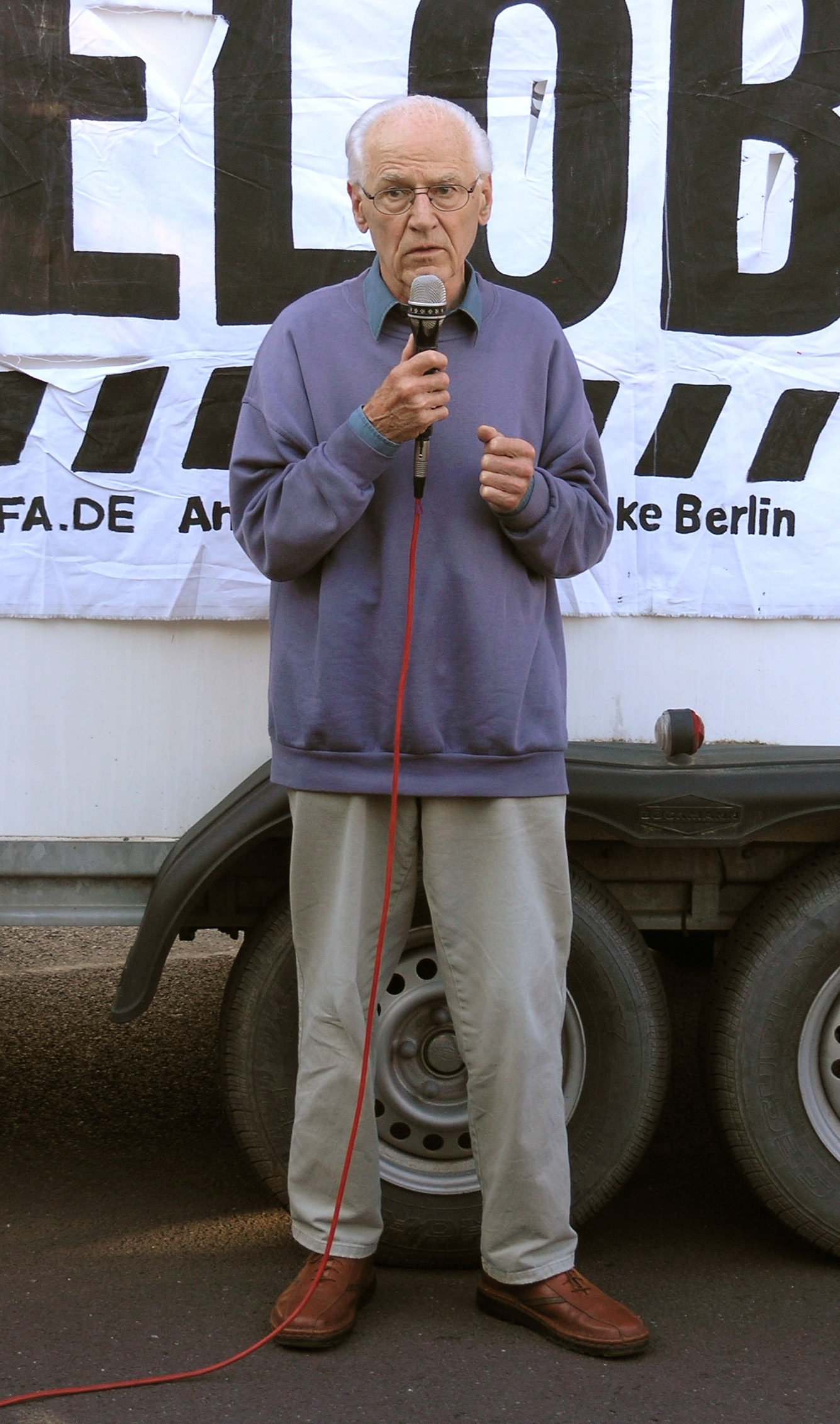 Ludwig Baumann, german Wehrmacht deserter and peace movement activist at protests against public vow of the Bundeswehr.